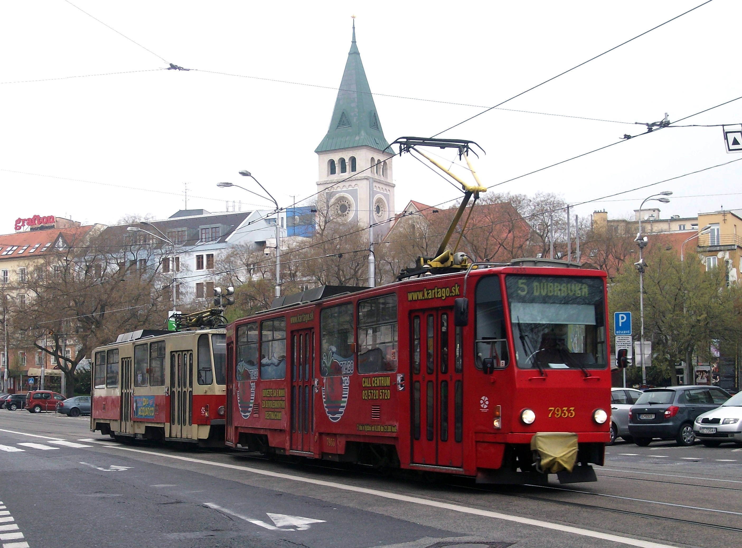 Tatra T6A5, Bratislava